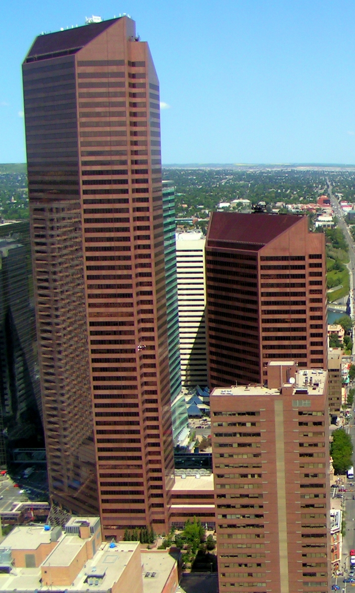 Petro-Canada Tower, Calgary, Alberta, Canada, seen from the Calgary Tower